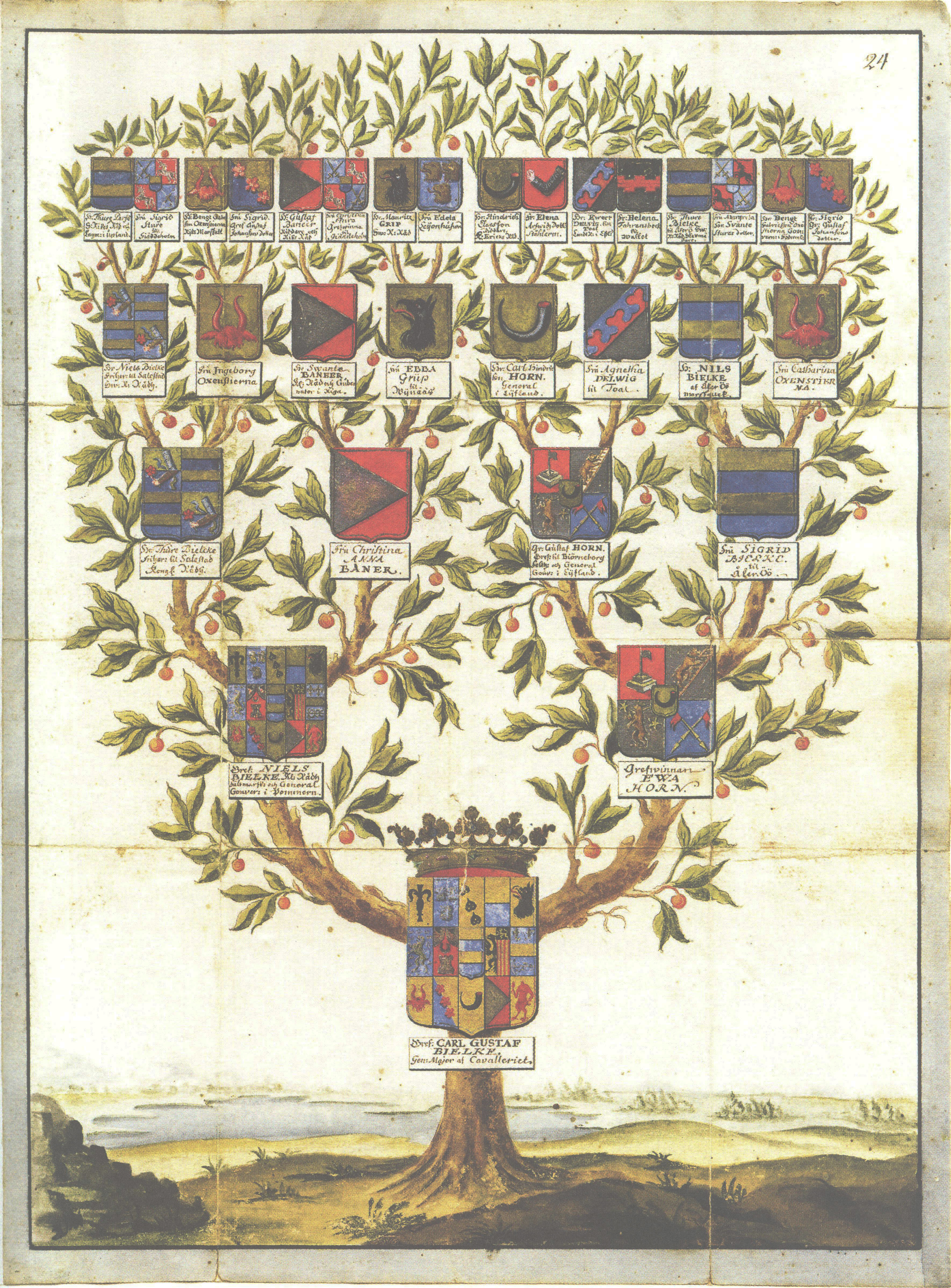 Family Tree of Carl Gustav Bielke, showing his relationships to the Horn, Banér, Oxenstierna, Grip and other families.